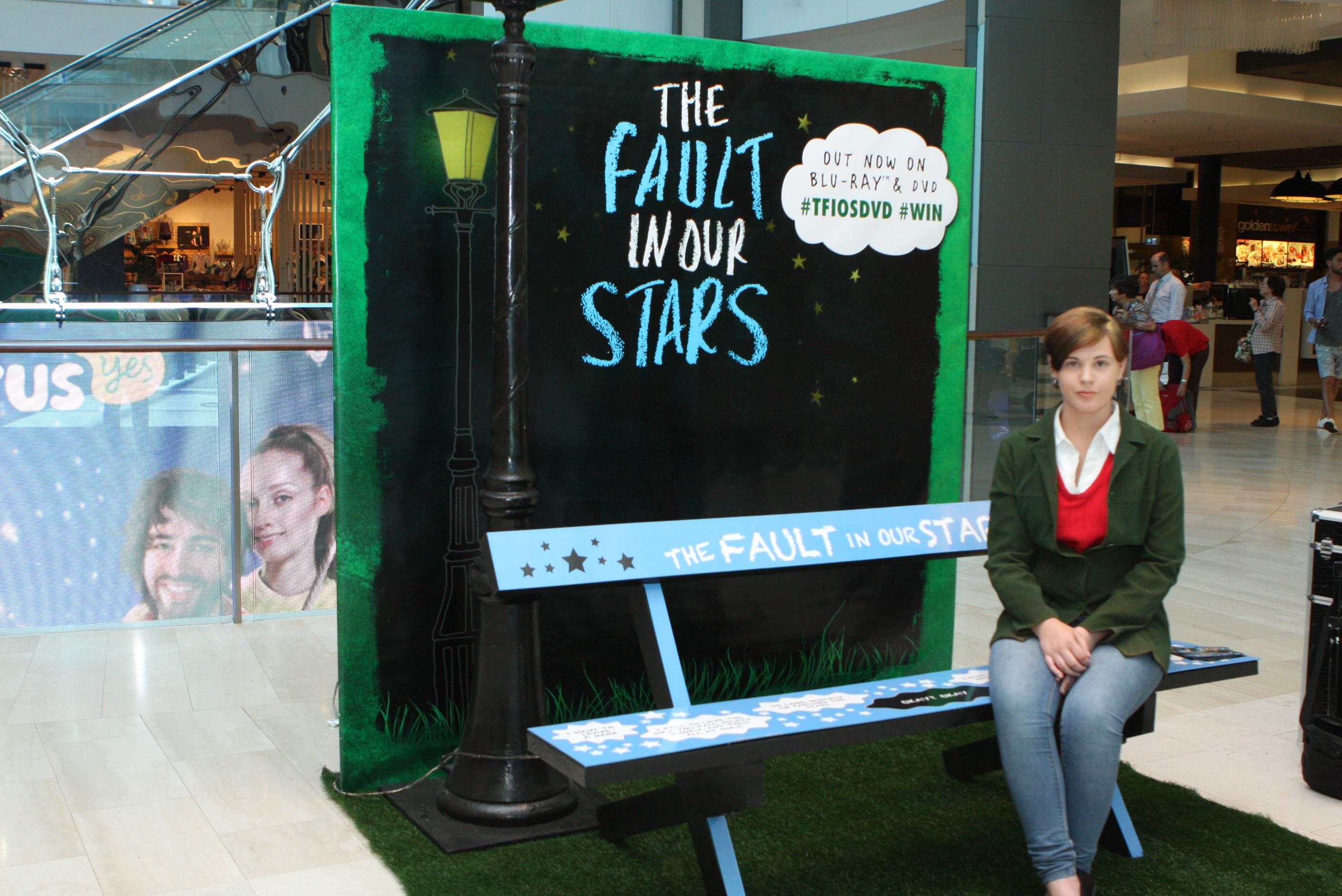 The Fault in Our Stars movie set at Wesfield Bondi